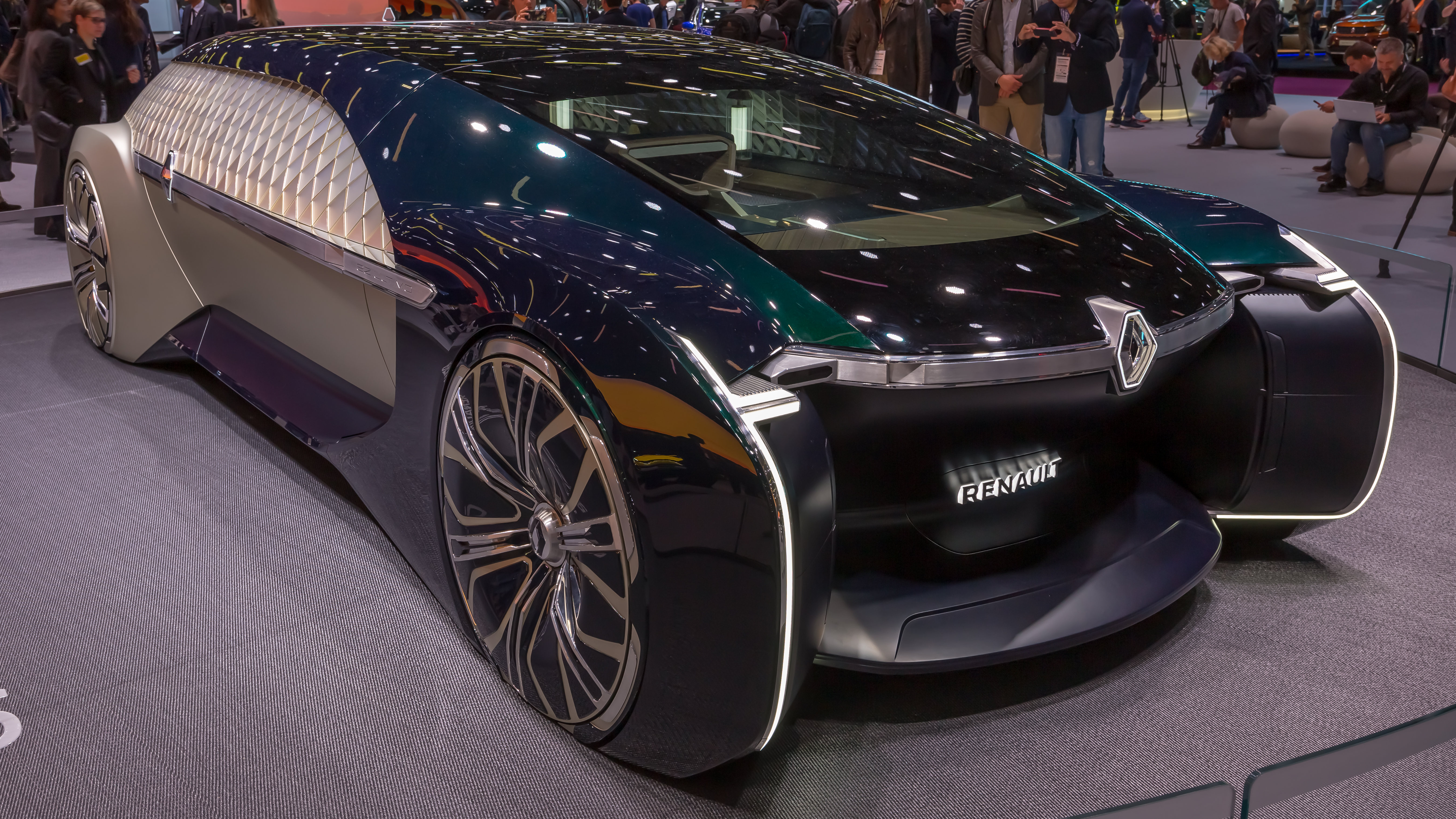 Renault EZ-Ultimo, Mondial Paris Motor Show 2018